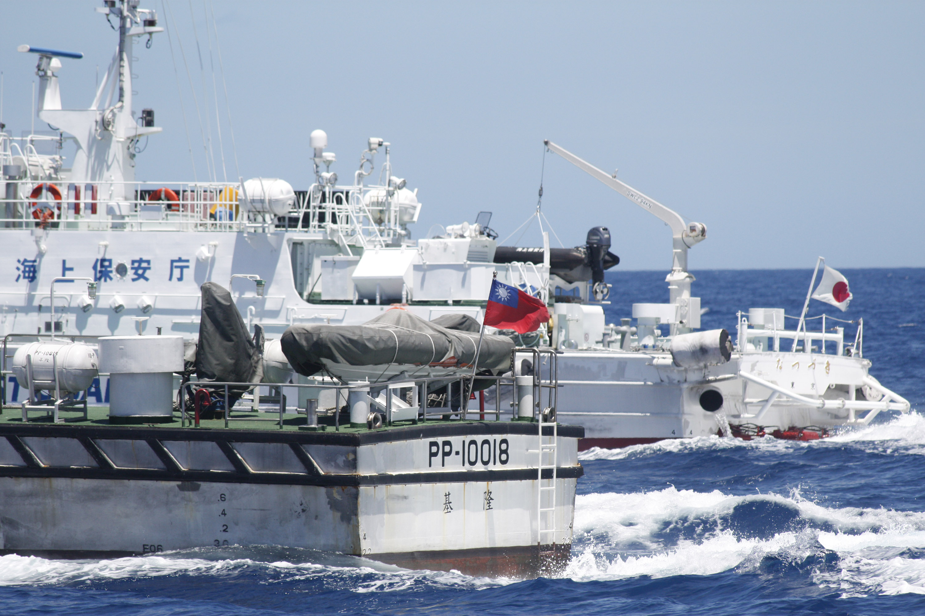 Vessels of the Taiwan Coast Guard Administration and Japan Coast Guard during a confrontation between the two on 2012-07-04.